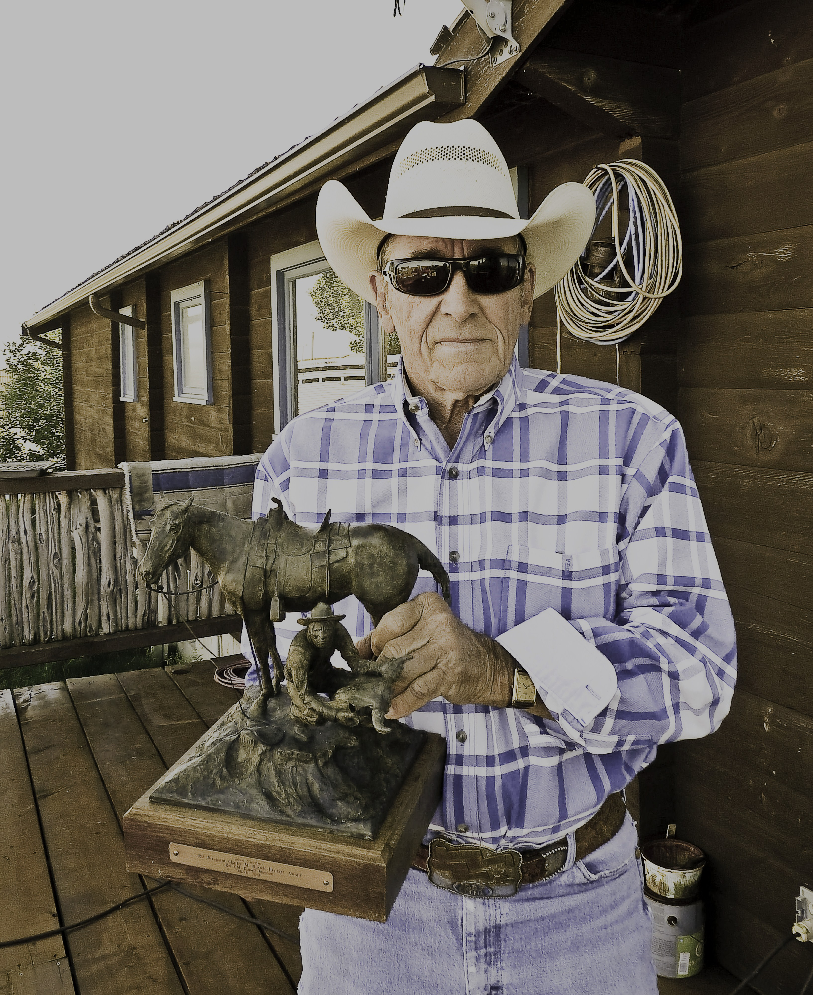 Taken at Longview at Ian's ranch this is the super award the C.M. Russleell Museum gave to Ian this spring. Photo by Lee Gunderson.